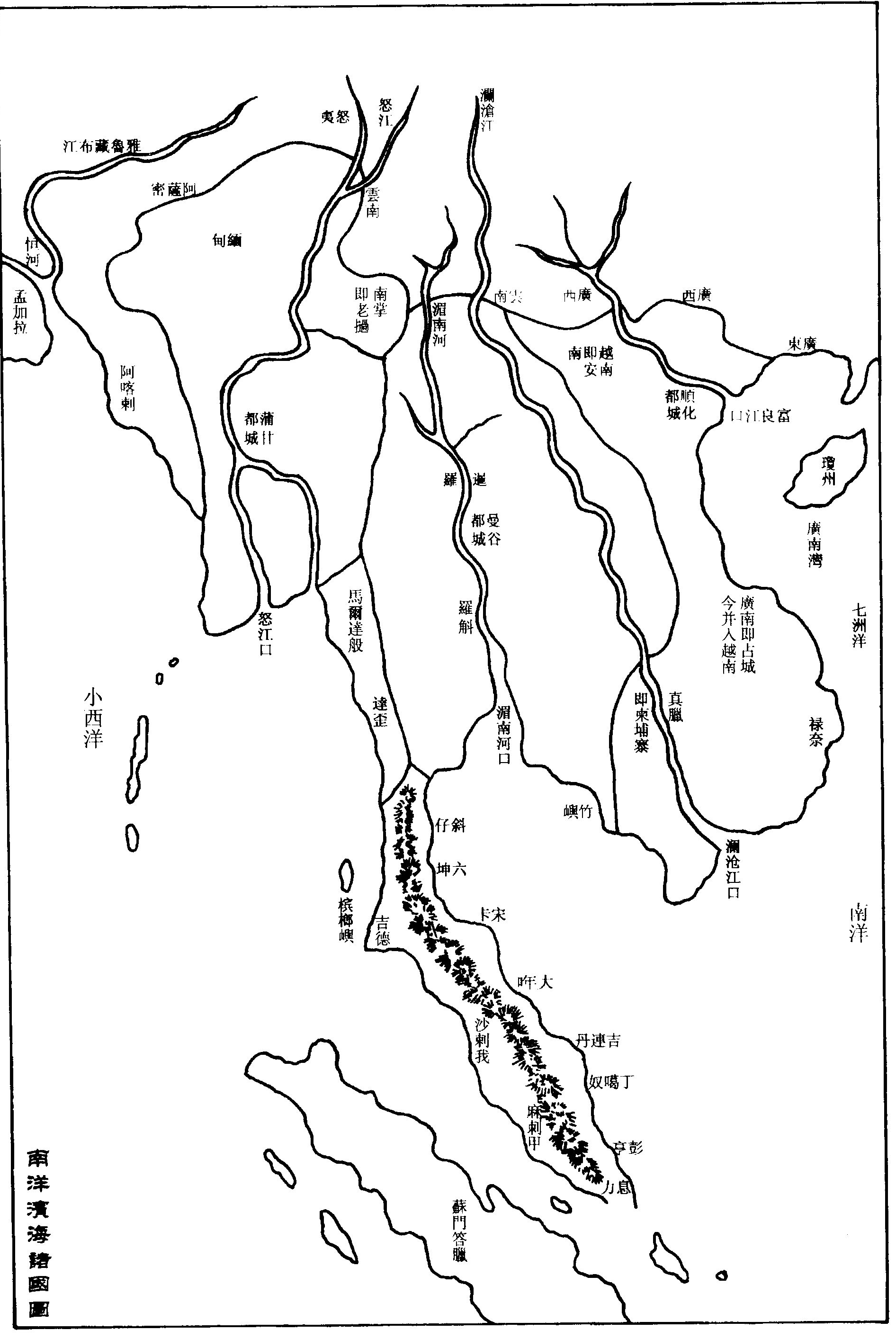 This map was scanned from a Ancient Chinese Book named as "瀛寰志略", the author is Chui Gai Yu（徐繼畬）, and he died at 1873.